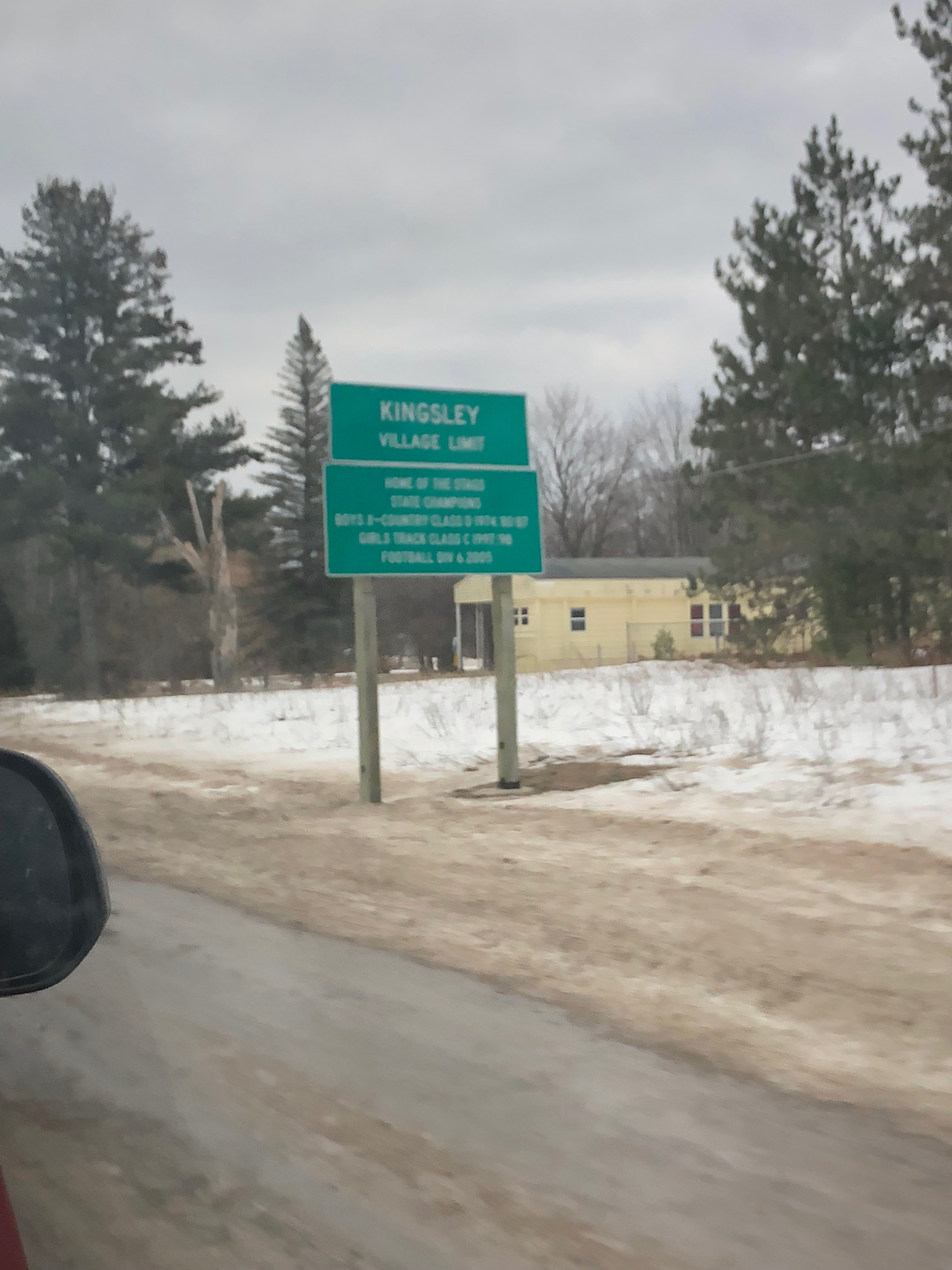 Kingsley, Michigan entering sign from M-113 East